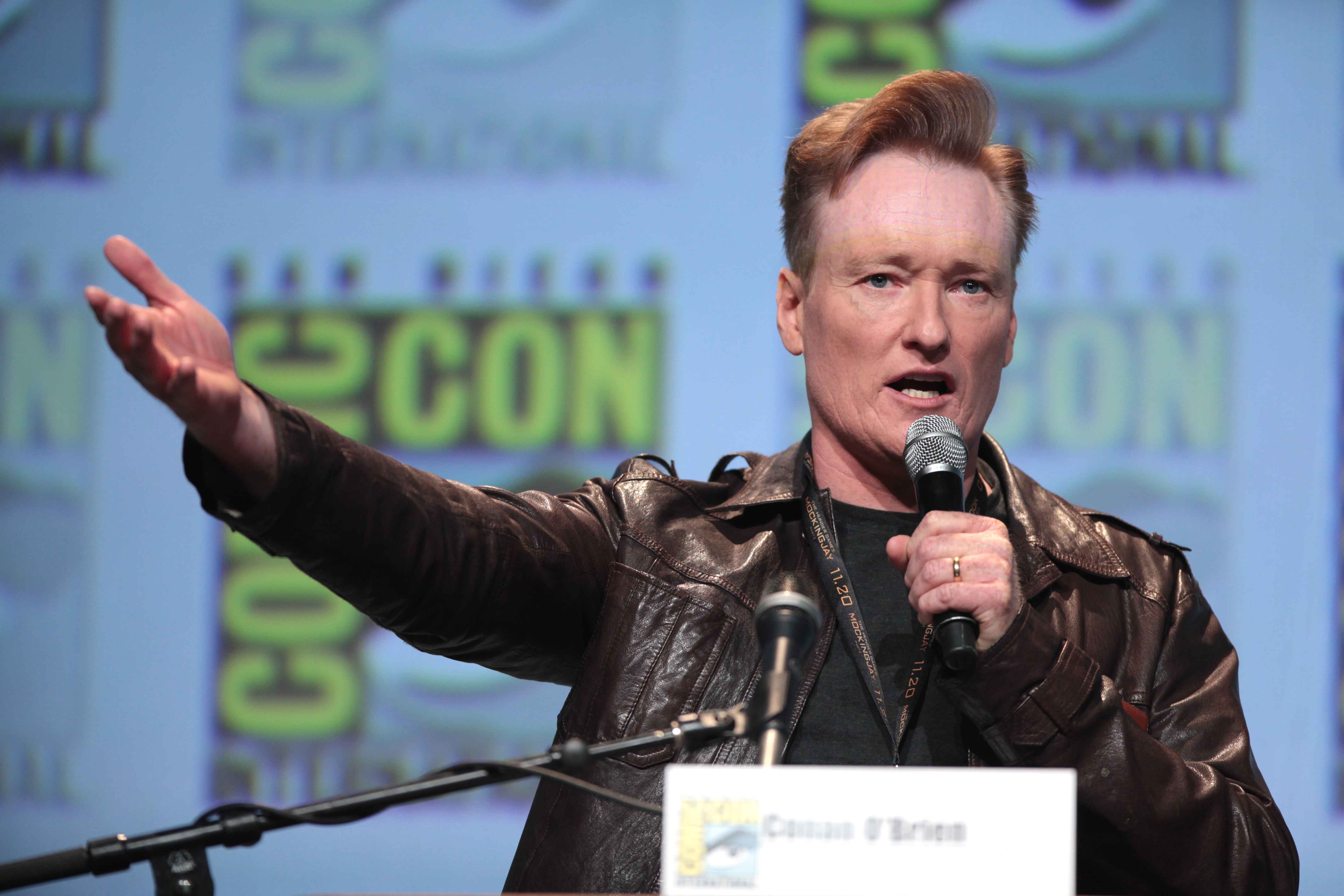 Conan O'Brien speaking at the 2015 San Diego Comic Con International, for "The Hunger Games: Mockingjay Part 2", at the San Diego Convention Center in San Diego, California.